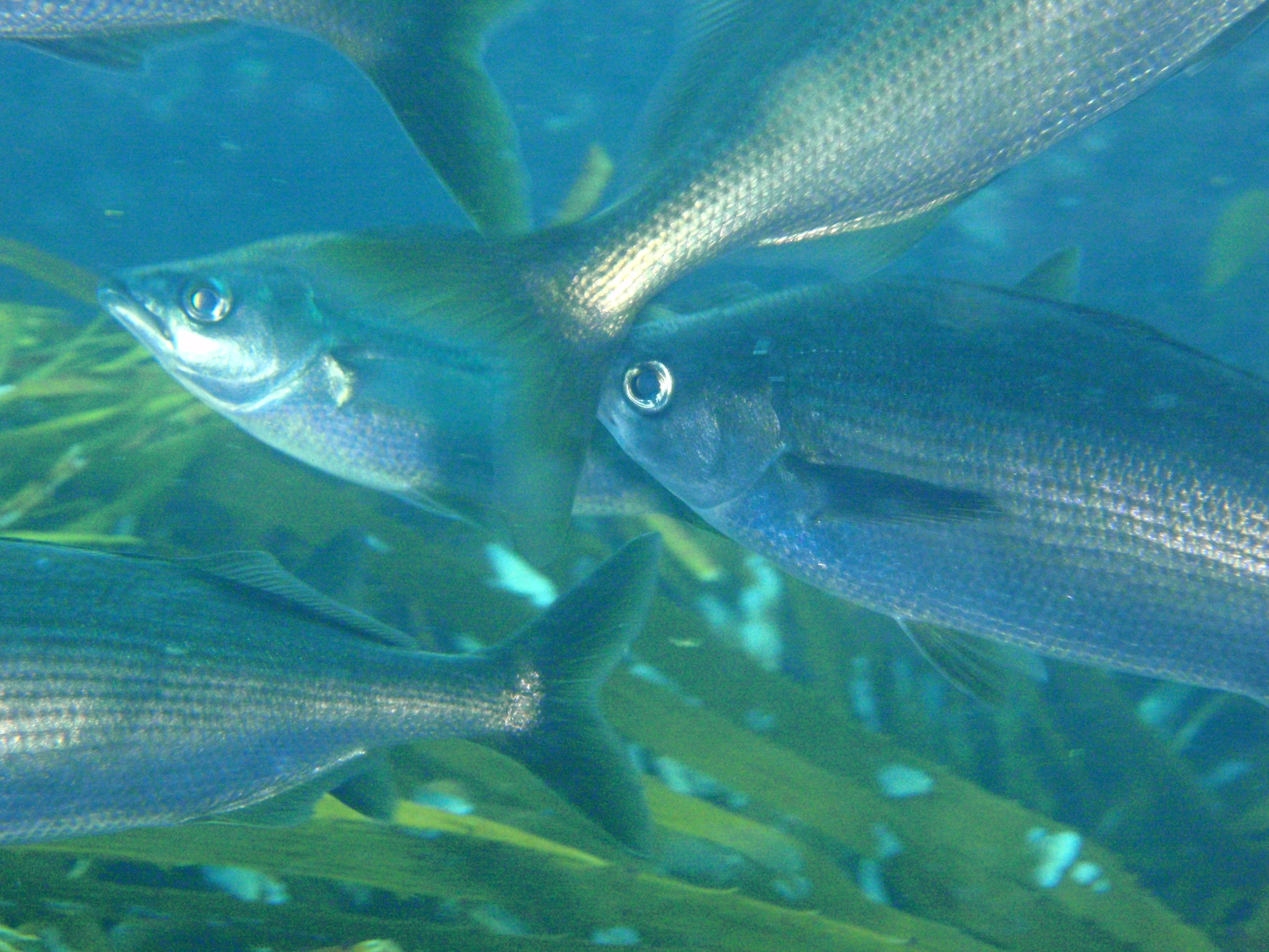 Real bastard trumpeter Mendosoma lineatum at The Sisters, Tasman Peninsula